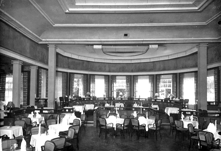 Restaurant Lido. Architect Sergey Antonov. Latvia.